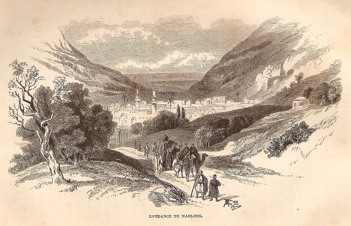 Alternative scan: Entrance to Nablous, picture p. 201 in W. M. Thomson: The Land and the Book; or Biblical Illustrations Drawn from the Manners and Customs, the Scenes and Scenery of the Holy Land. Vol. II. New York, 1859